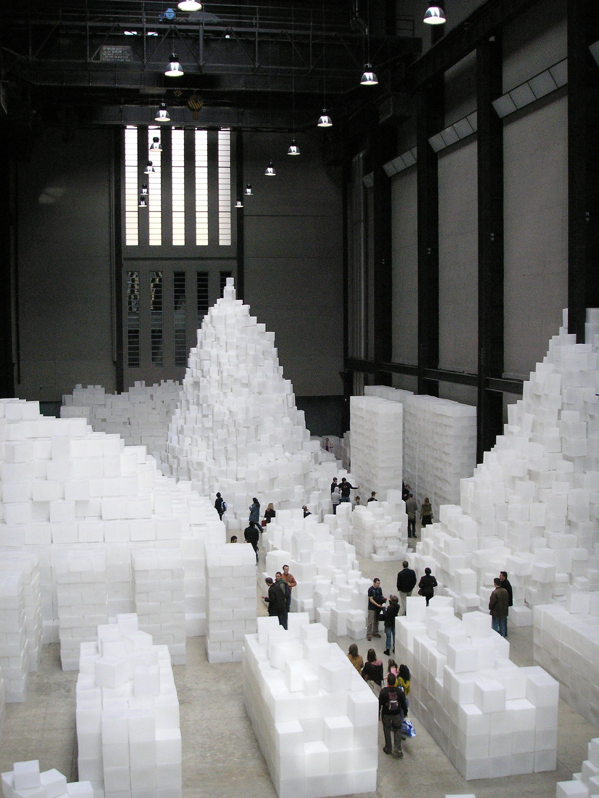 Embankment by Rachel Whiteread at the Tate Modern in London.